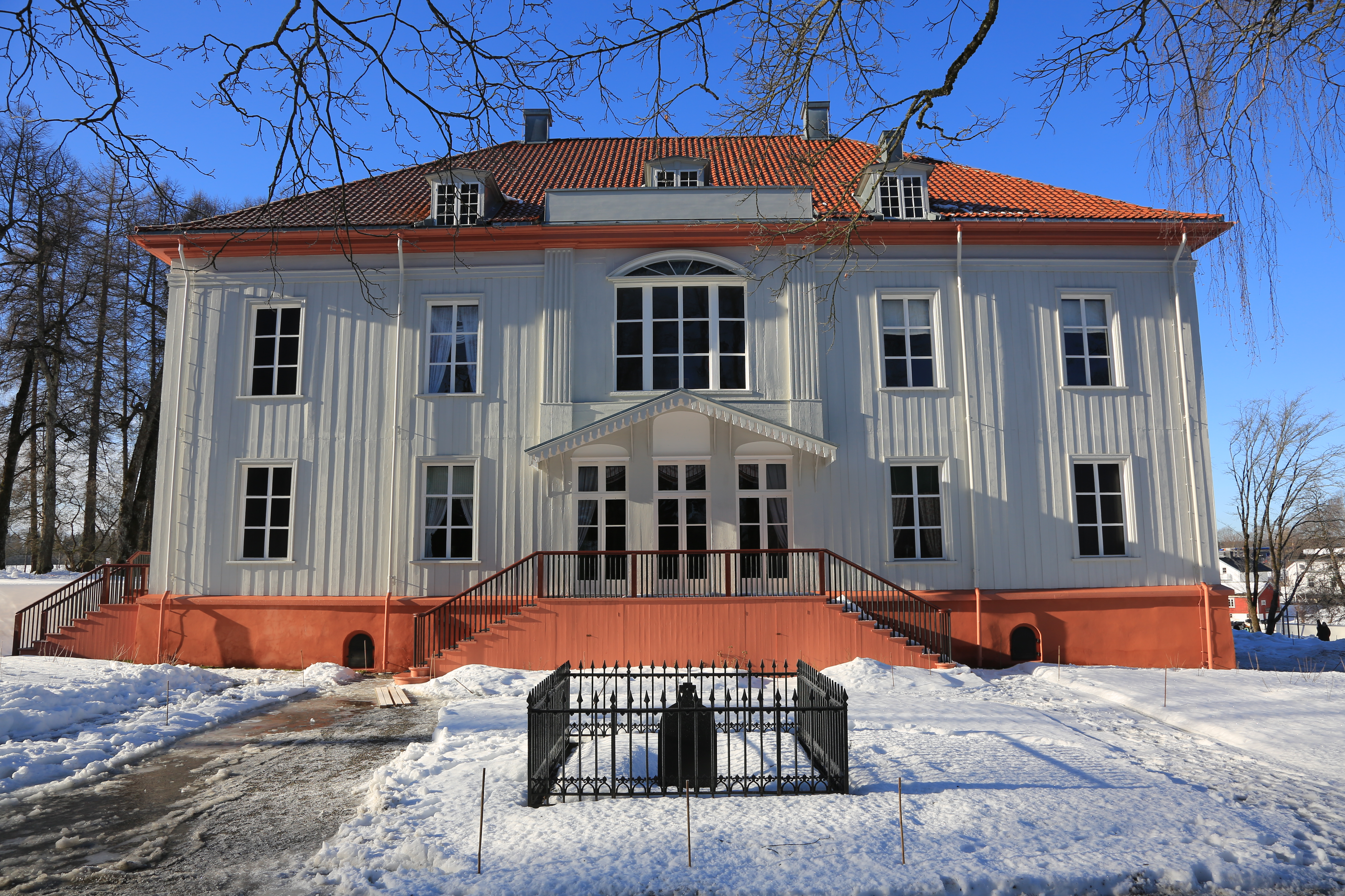 The building where Norways constitution was made in the spring of 1814. Back.